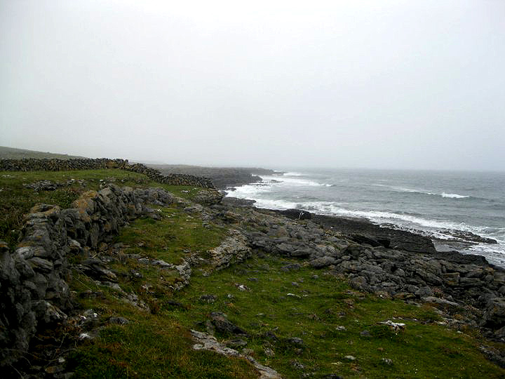 Facing south along the Clare coast from an archaeological site in Fanore.